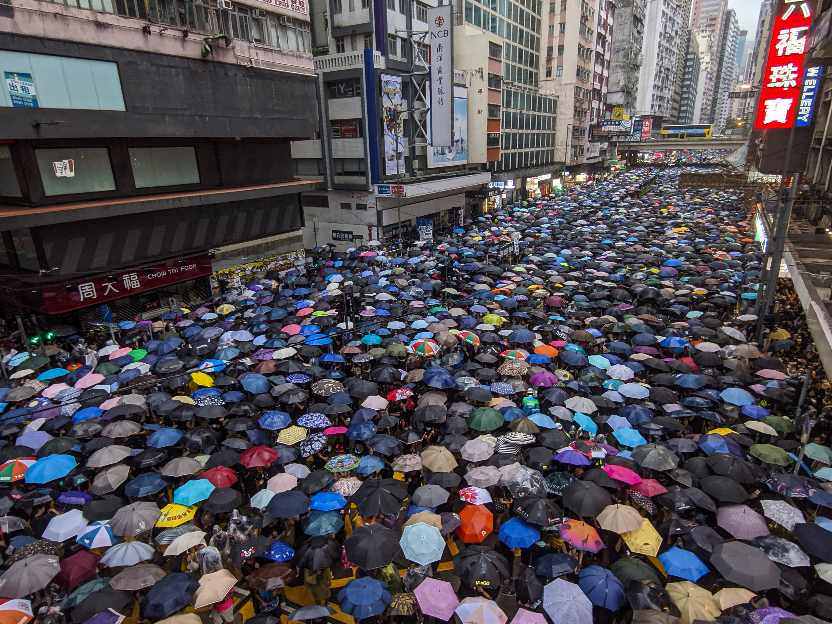 Protesters brave heavy rain as they march against the 2019 Hong Kong extradition bill on Sunday, August 18, 2019.